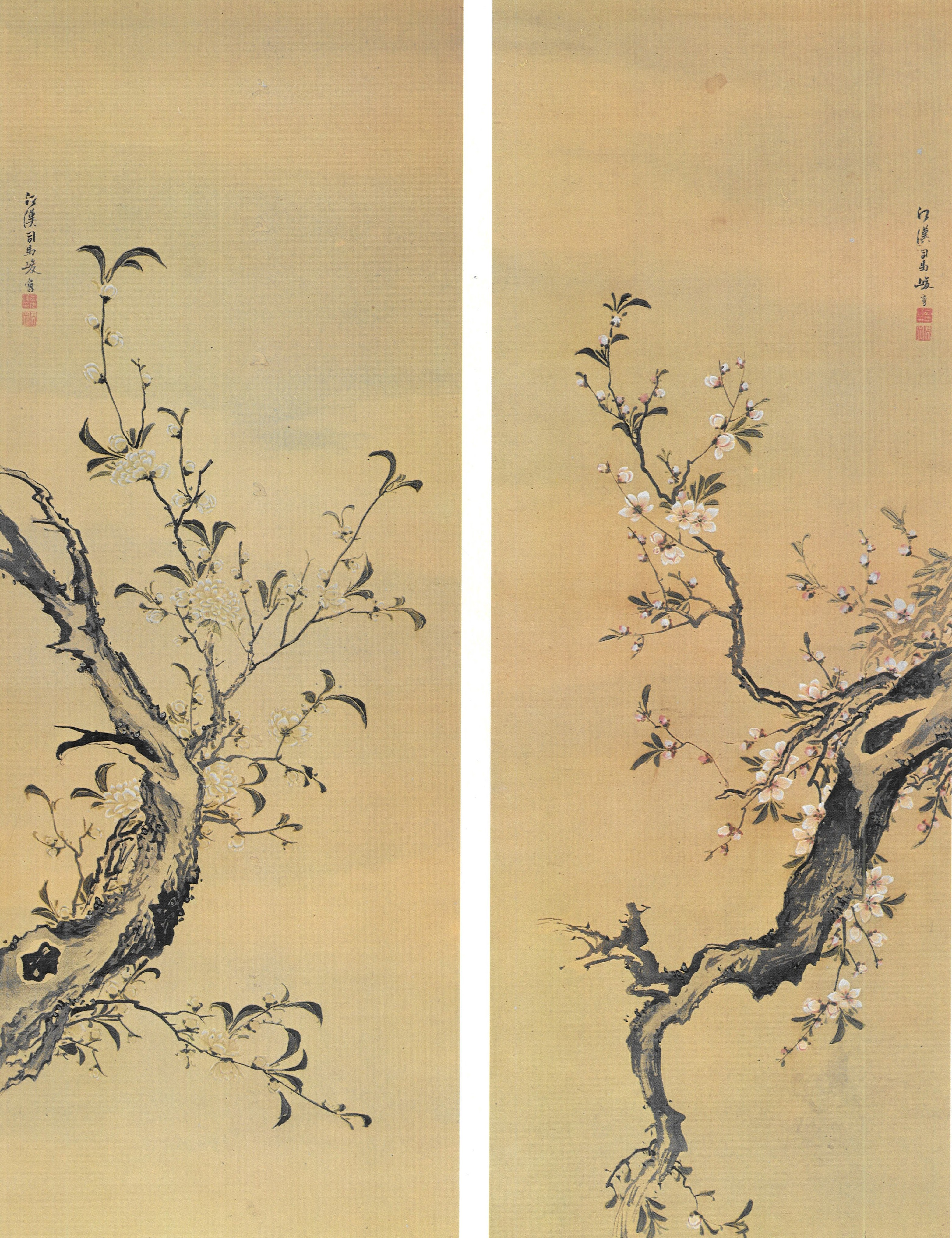 Shiba Kôkan branches of trees